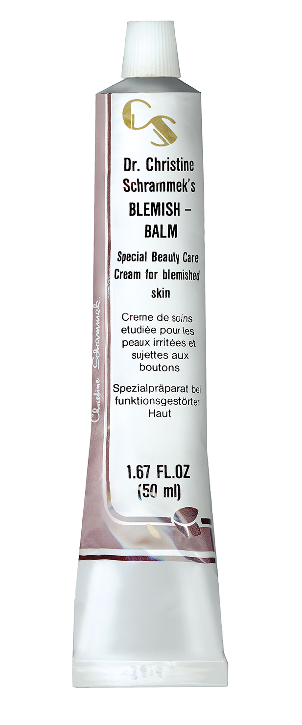 Blemish Balm - The Original BB Cream from 1960s